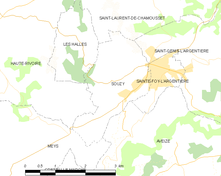 Map of French municipality